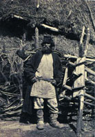 Morvinian peasant in the traditional clothes, sec. part of XIX cent.